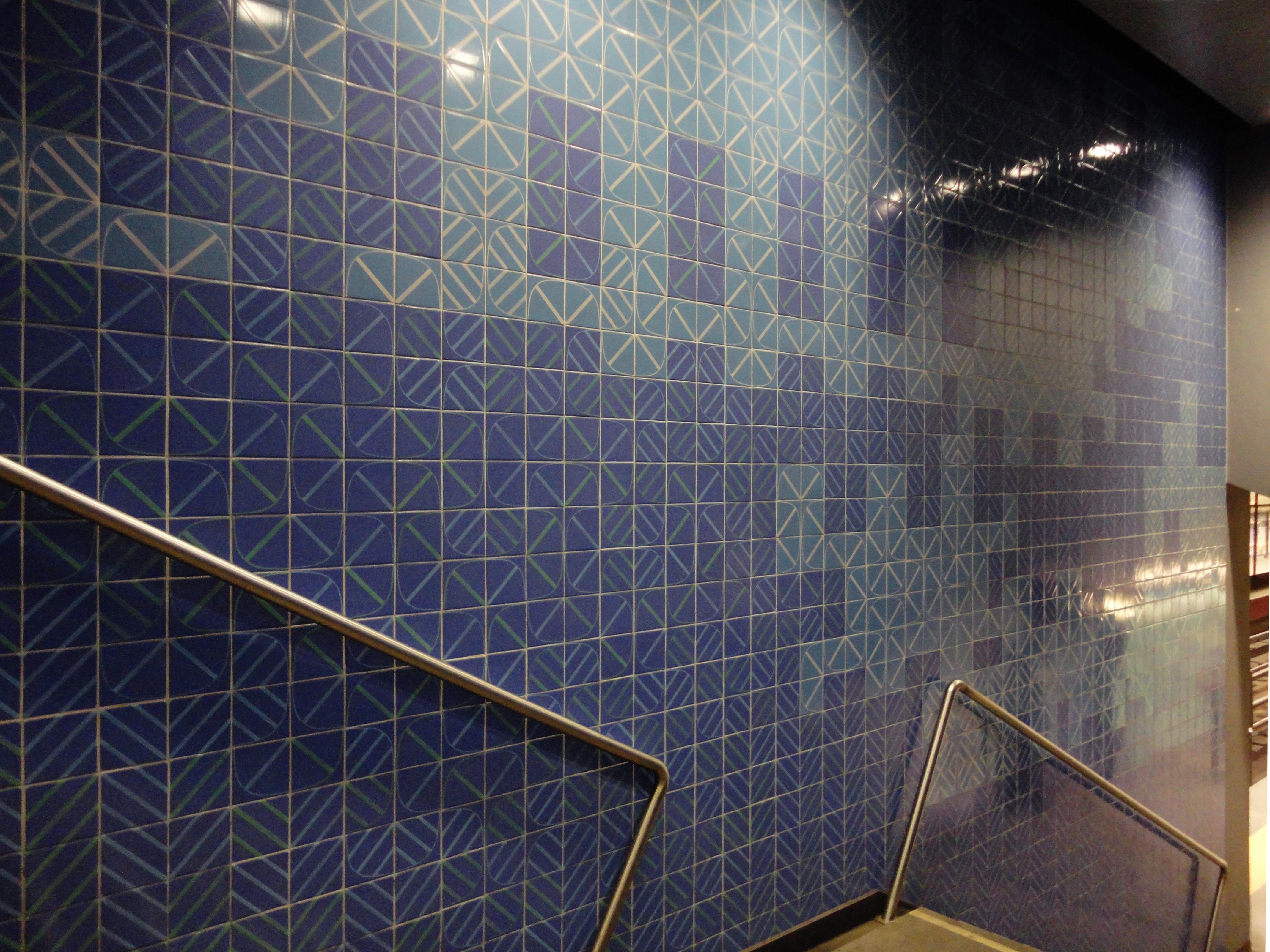 Lisbon Underground, Roma; azulejos (ceramic tiles) by Maria Keil.